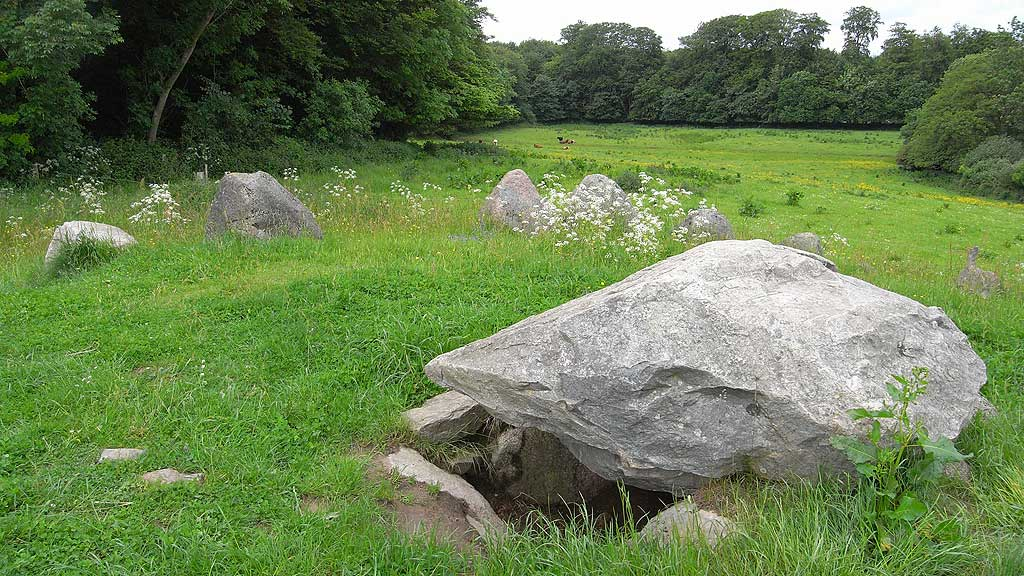 Site Name: Baronens Høj Runddysse Alternative Name: Nørreskov Country: Denmark County: Sønderborg (incl. Als) Type: Burial Chamber (Dolmen) Nearest Town: Sønderborg Nearest Village: Egen Latitude: 55.026048N Longitude: 9.877918E